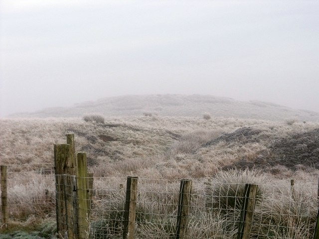 Herd's Hill, West Fannyside At 178m hardly a hill but that's what the O.S. have named it.